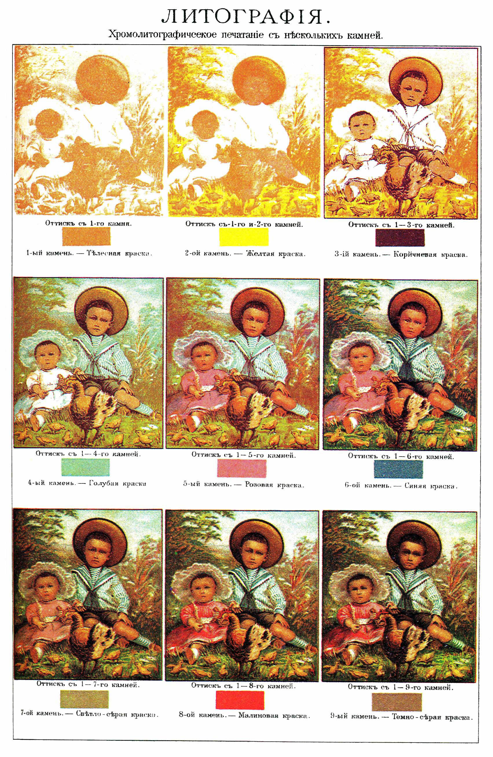 Illustration from Brockhaus and Efron Encyclopedic Dictionary (1890—1907)